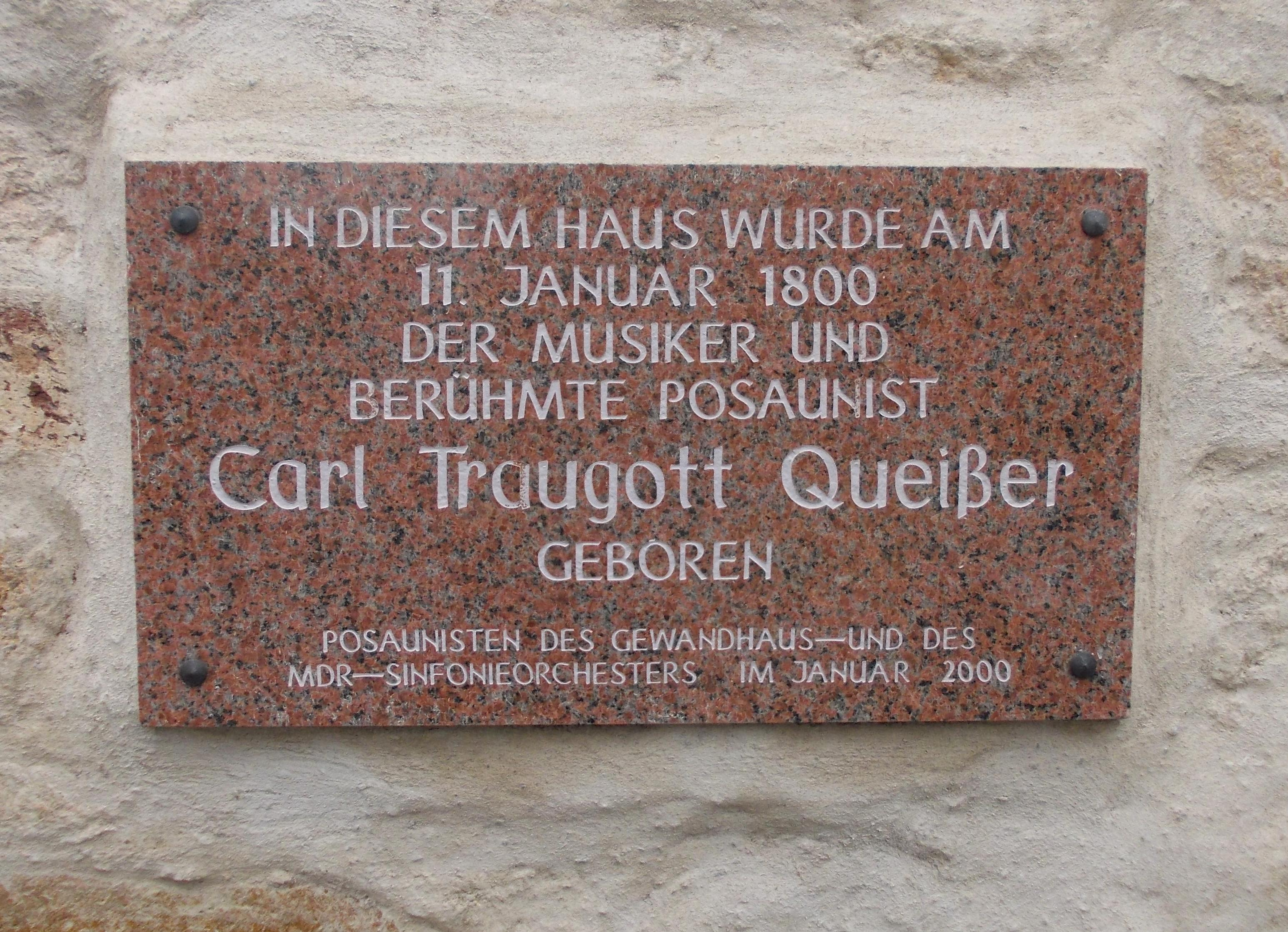 Plaque at the birthplace of the musician Carl Traugott Queißer (1800-1846) in Dorfplatz (village square) in Döben (Grimma, Leipzig district, Saxony)